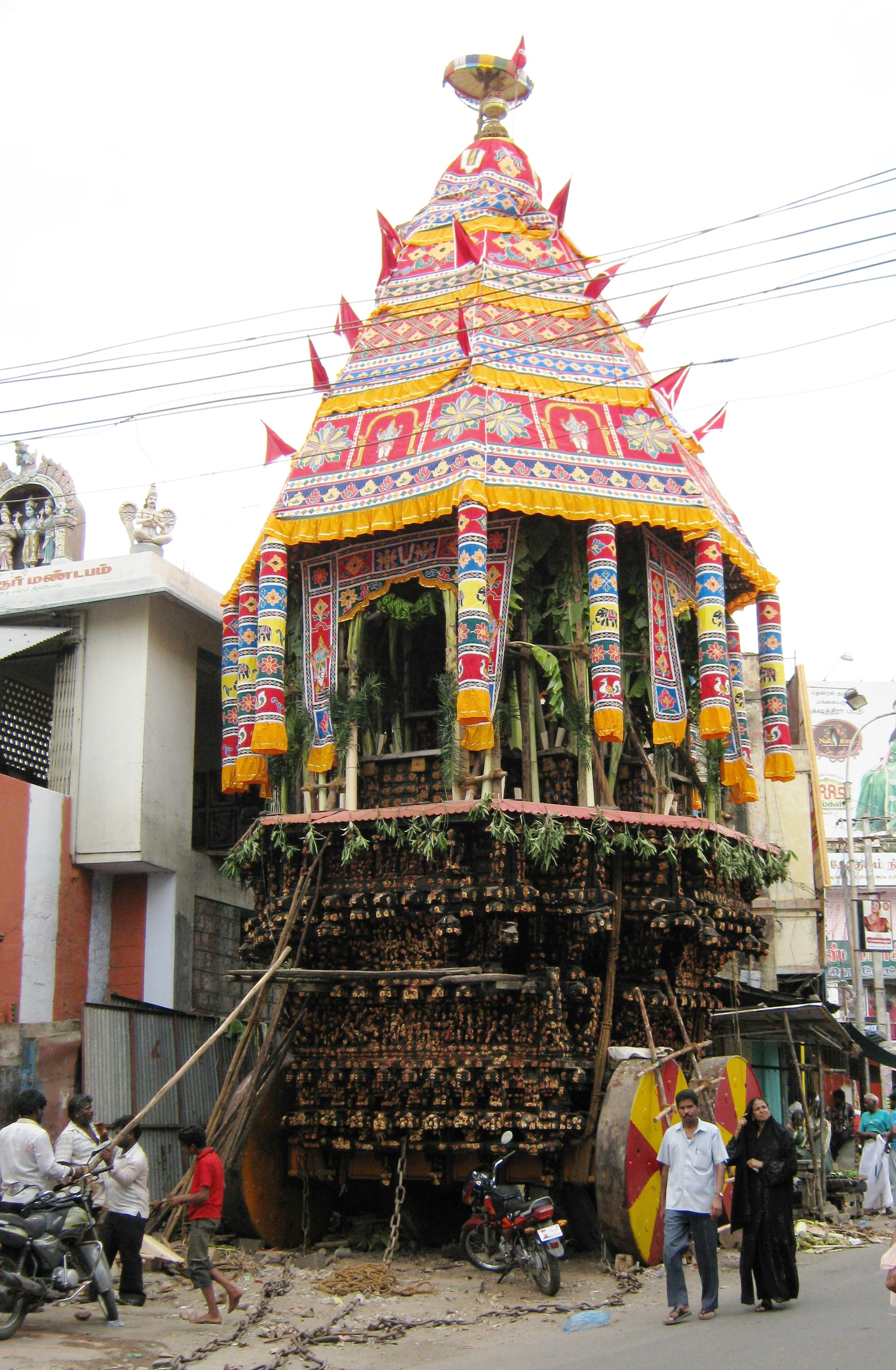 THE FAMOUS. TWO CHARIOTS (CARS) OF SALEM